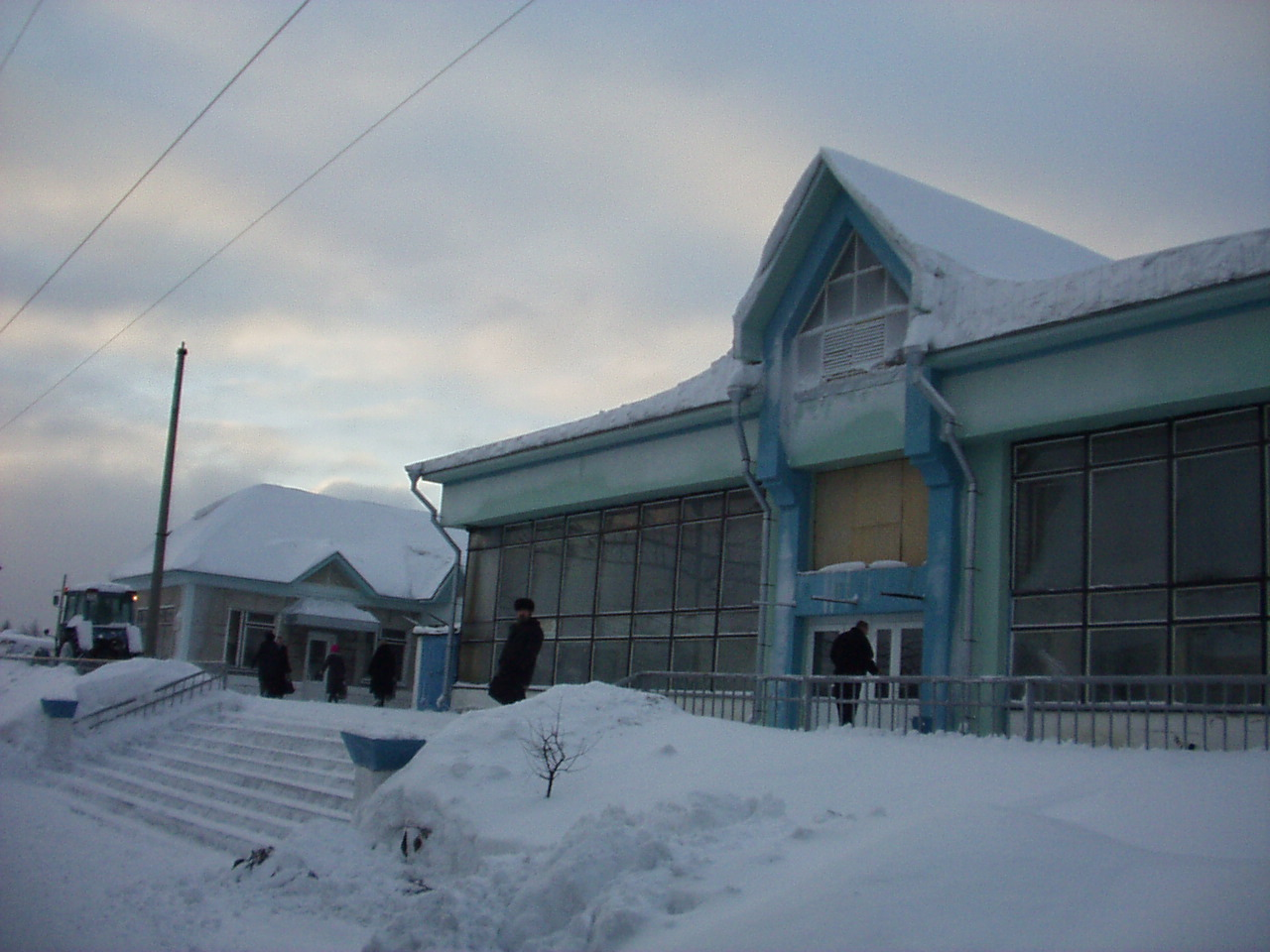 Nyandoma train station in 2003, Arkhangelsk oblast